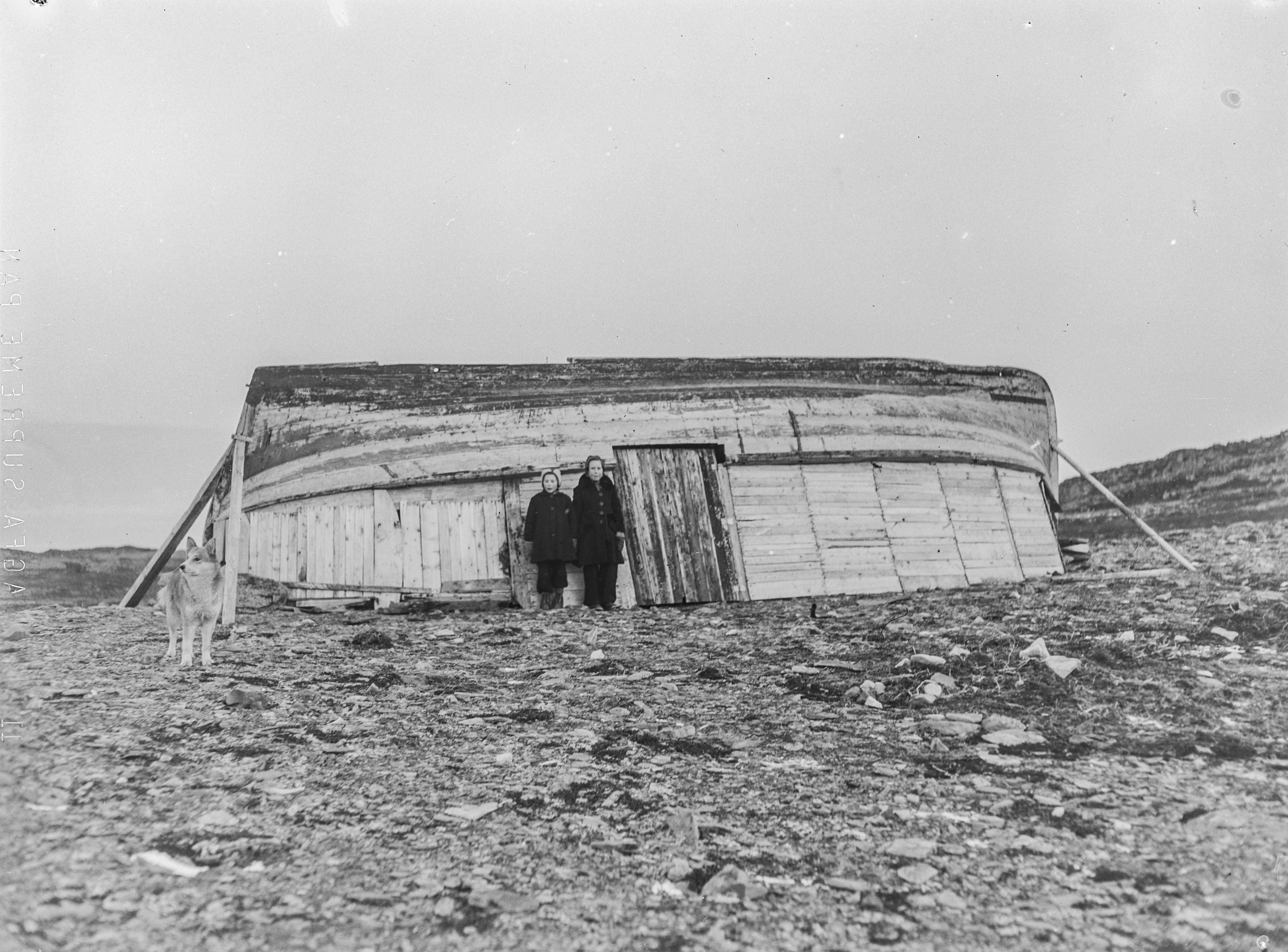 Photos from Flickr album "Evakueringen og frigjøringen av Finnmark" (The Evacuation and Liberation of Finnmark, 2015) ny Riksarkivet (National Archives of Norway). Towards the end of World War II, with Operation Nordlicht, the Germans used the scorched earth tactic in Finnmark and northern Troms to halt the Red Army. As a consequence of this, few houses survived the war, and a large part of the population was forcefully evacuated further south (Tromsø was crowded), but many people avoided evacuation by hiding in caves and mountain huts and waited until the Germans were gone, then inspected their burned homes. There were 11,000 houses, 4,700 cow sheds, 106 schools, 27 churches, and 21 hospitals burned. There were 22,000 communications lines destroyed, roads were blown up, boats destroyed, animals killed, and 1,000 children separated from their parents. However, after taking the town of Kirkenes on 25 October 1944 (as the first town in Norway), the Red Army did not attempt further offensives in Norway. The town was handed over to Norway as the war ended. When war was over, more than 70,000 people were left homeless in Finnmark. The government imposed a temporary ban on residents returning to Finnmark because of the danger of landmines. The ban lasted until the summer of 1945 when evacuees were told that they could finally return home.